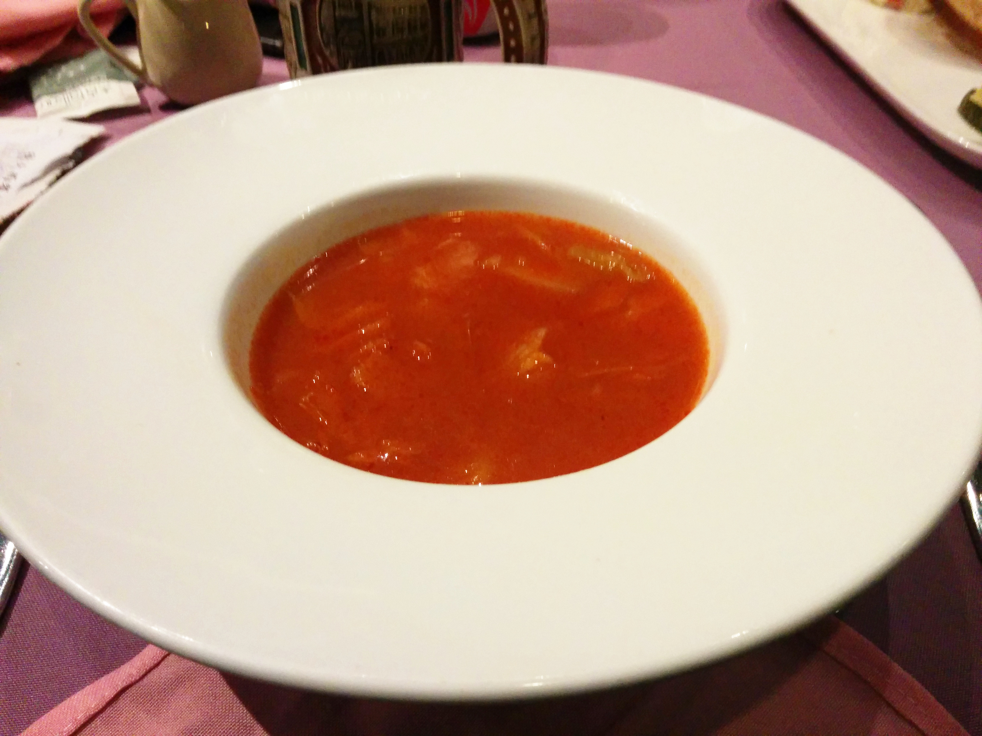 Shanghai-style Borscht, Deda / Cosmopolitan Cafe.